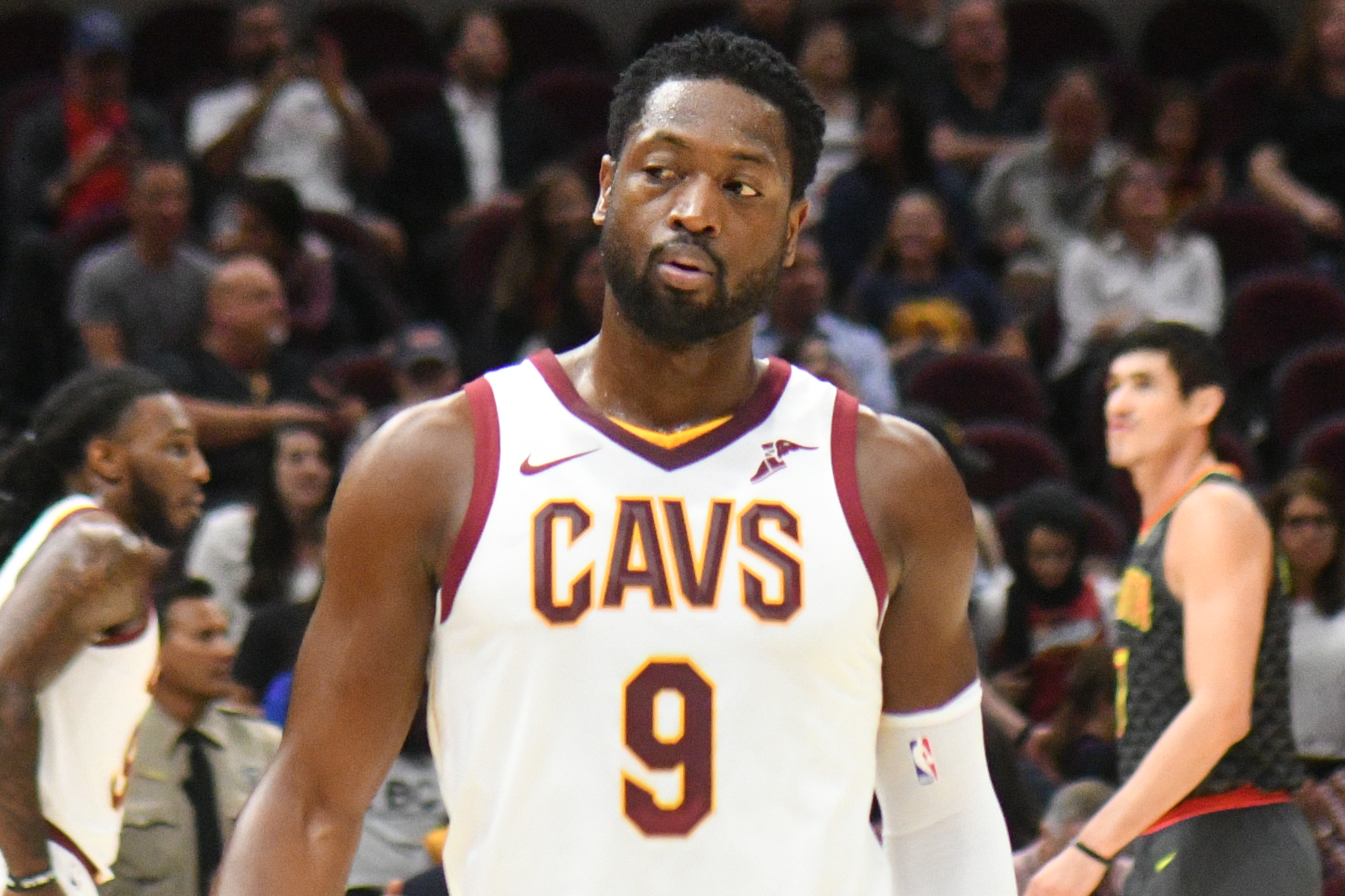 Dwyane Wade at Cleveland Cavaliers